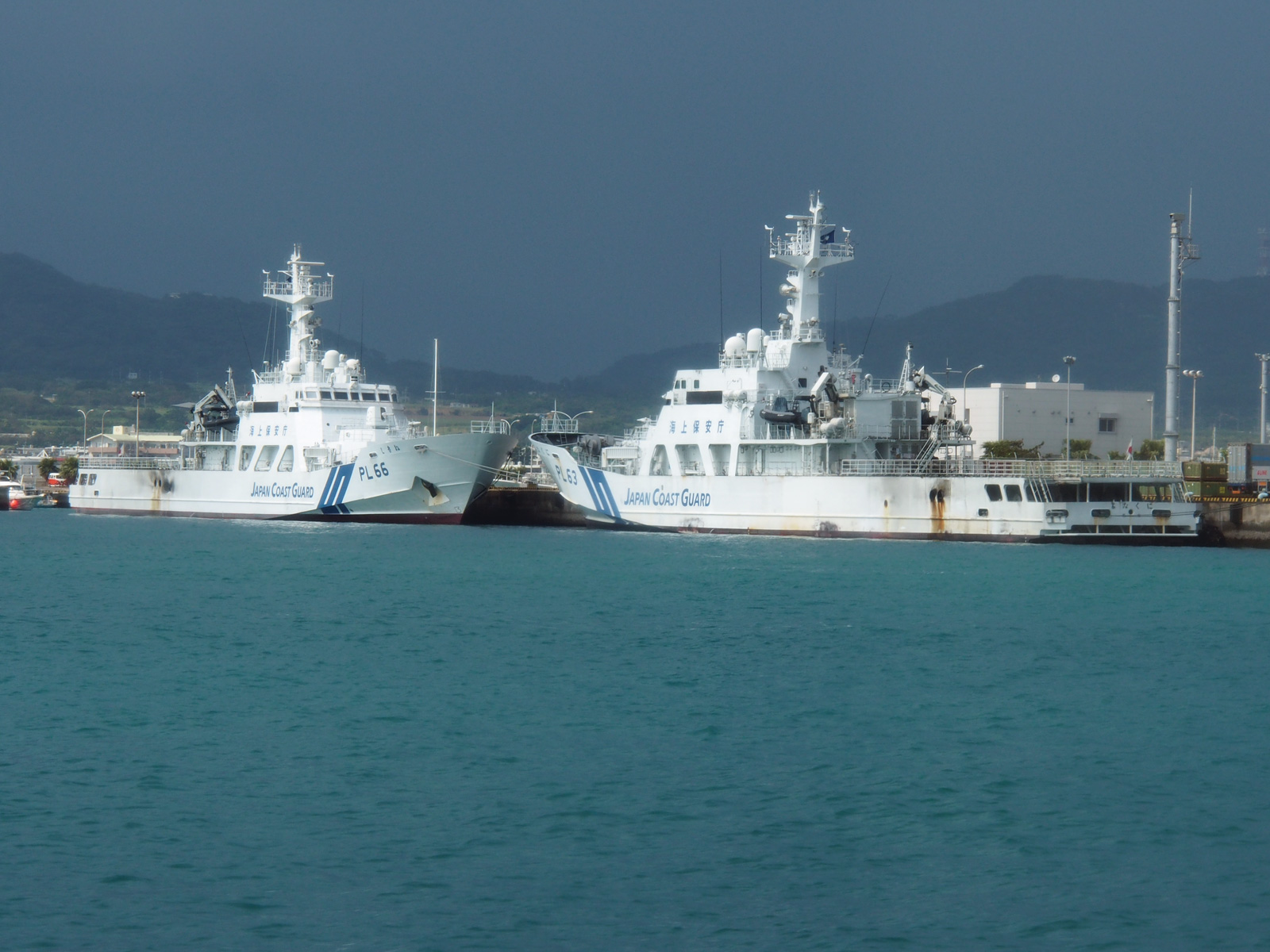 Japan Coast Guard PL63 Yonakuni and PL66 Shikine at the Port of Ishigaki